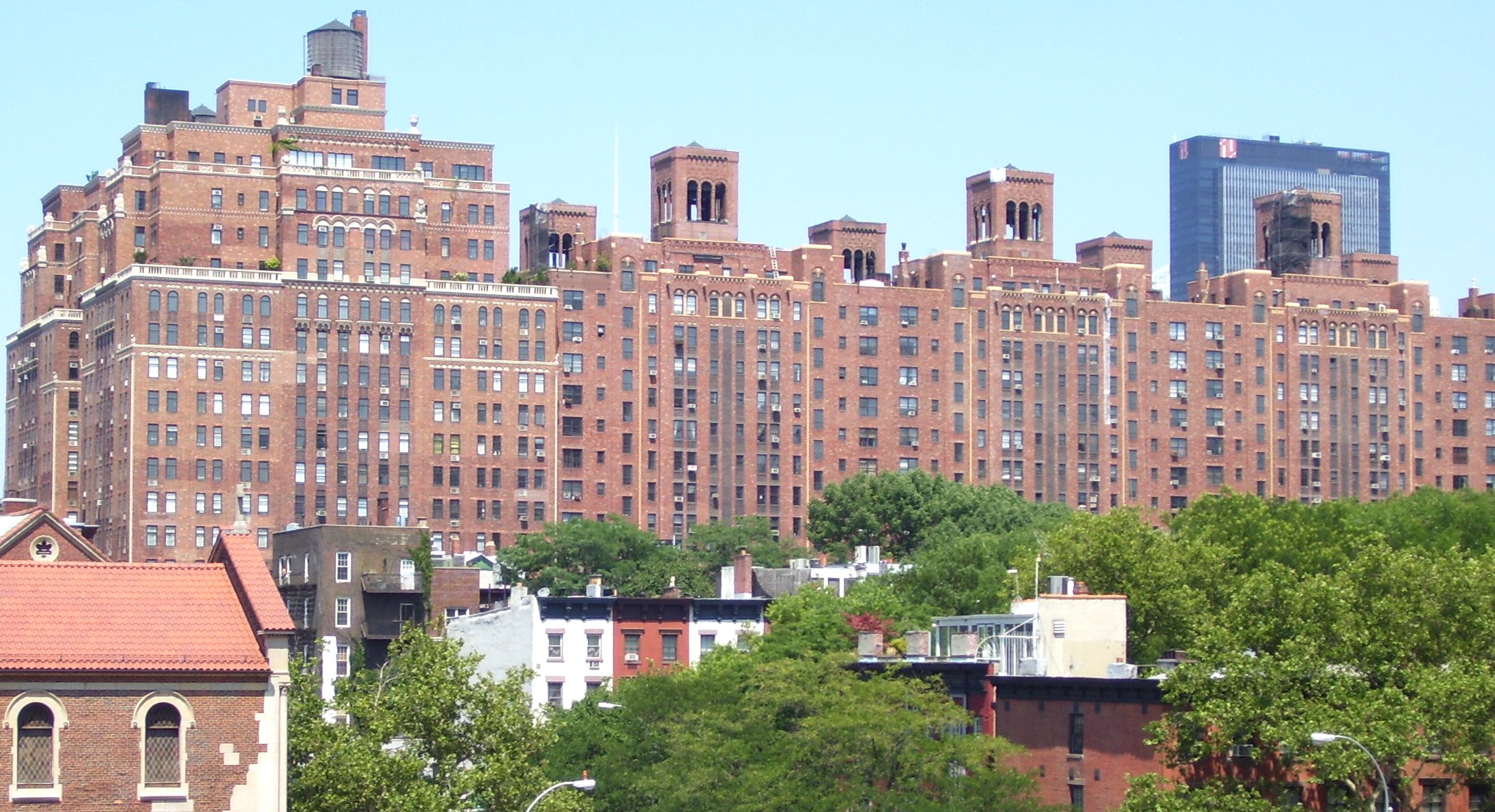 Part of the London Terrace apartment complex on 23rd Street as seen from The High Line at 20th Street in Manhattan, New York City